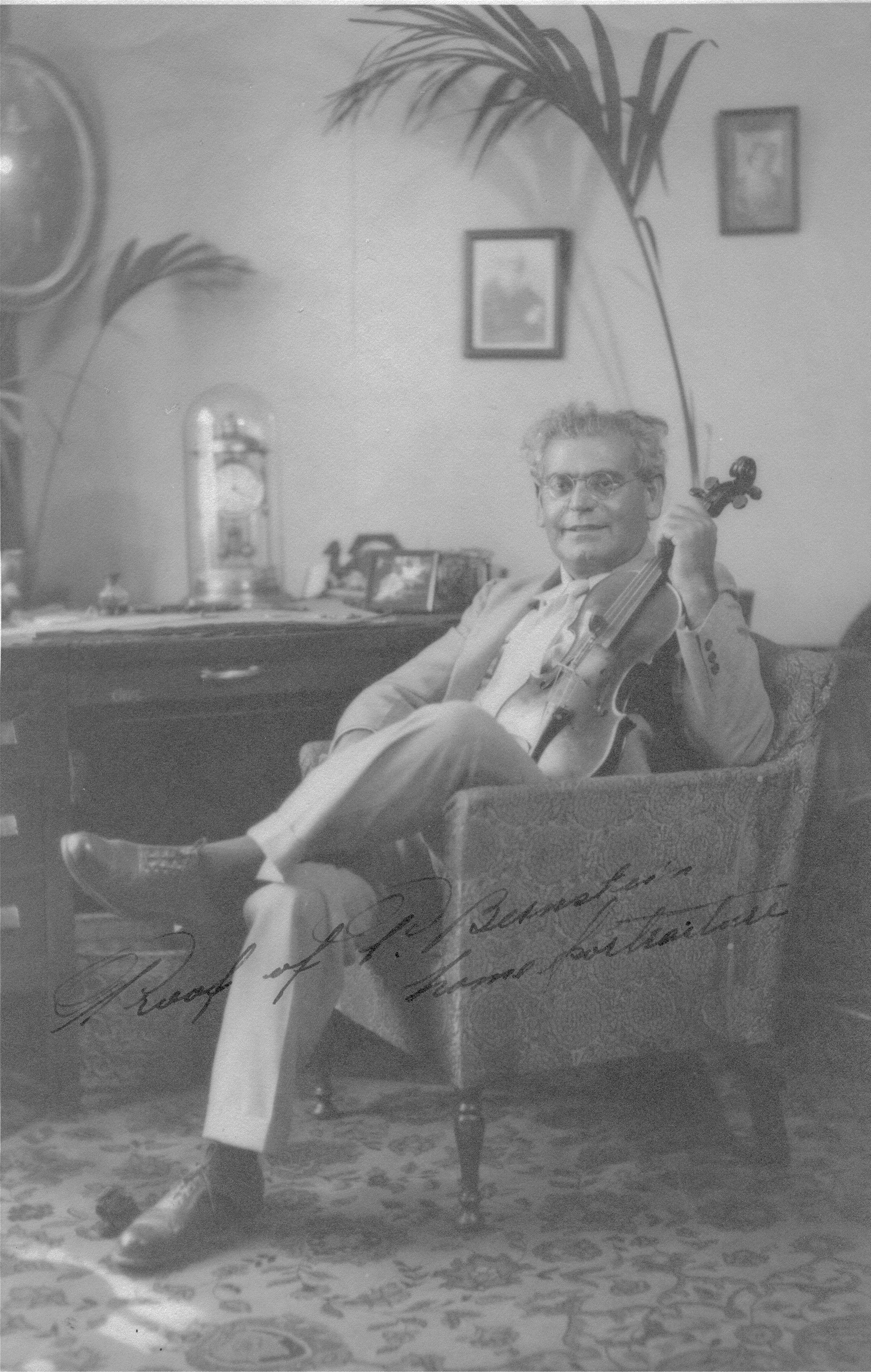 Portrait of Leo Portnoff, musician, teacher, and composer